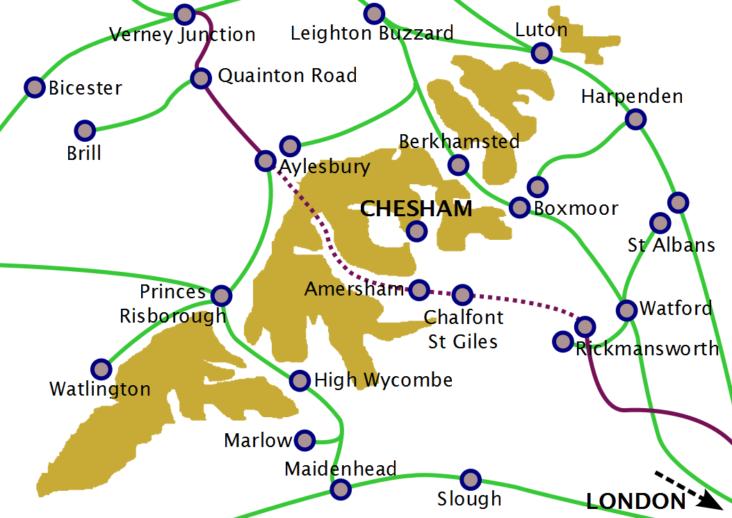 Proposed 1888 extension from the Metropolitan Railway to the Aylesbury and Buckingham Railway via Amersham